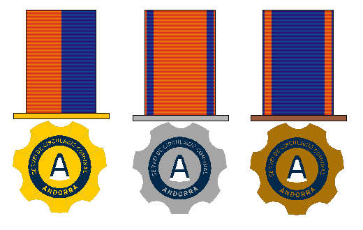 Model 1 for the medals for 15, 20 and 25 years of service of the City Guards of Andorra